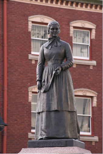 Statue of Sister Dora This statue of Sister Dora, a famous nineteenth century nurse who did much good work in Walsall, stand on the Bridge in the town centre. The statue was moved from its original location about 20 yards away several years ago when the area was revamped.